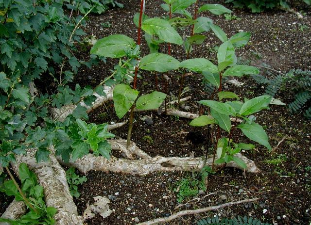 Populus trichocarpa making adventive shoots from its roots. The Botanical Garden, Reykjavik, Iceland.